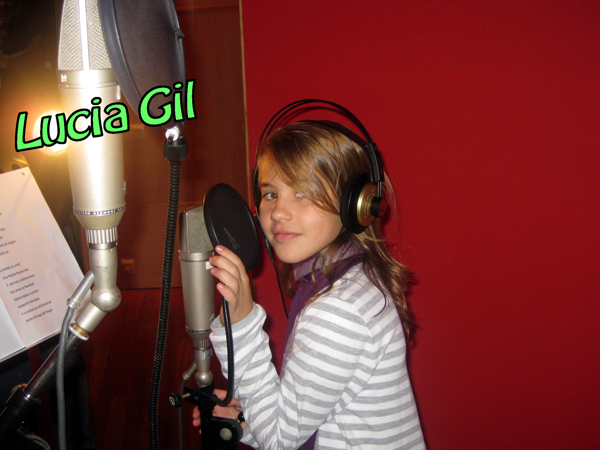 Lucia Gil at the recording studio